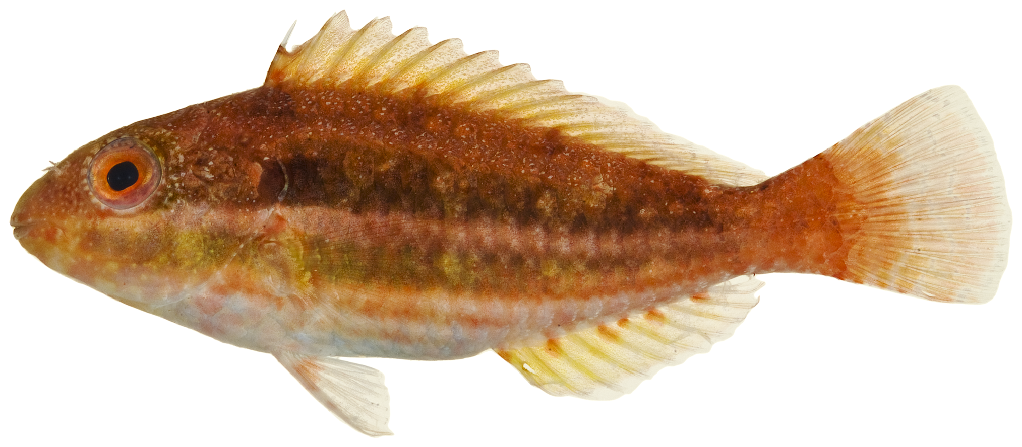 Sparisoma aurofrenatum (Valenciennes, 1840)—redband parrotfish, 53.8 mm SL, juvenile color phase. Photo by JT Williams.